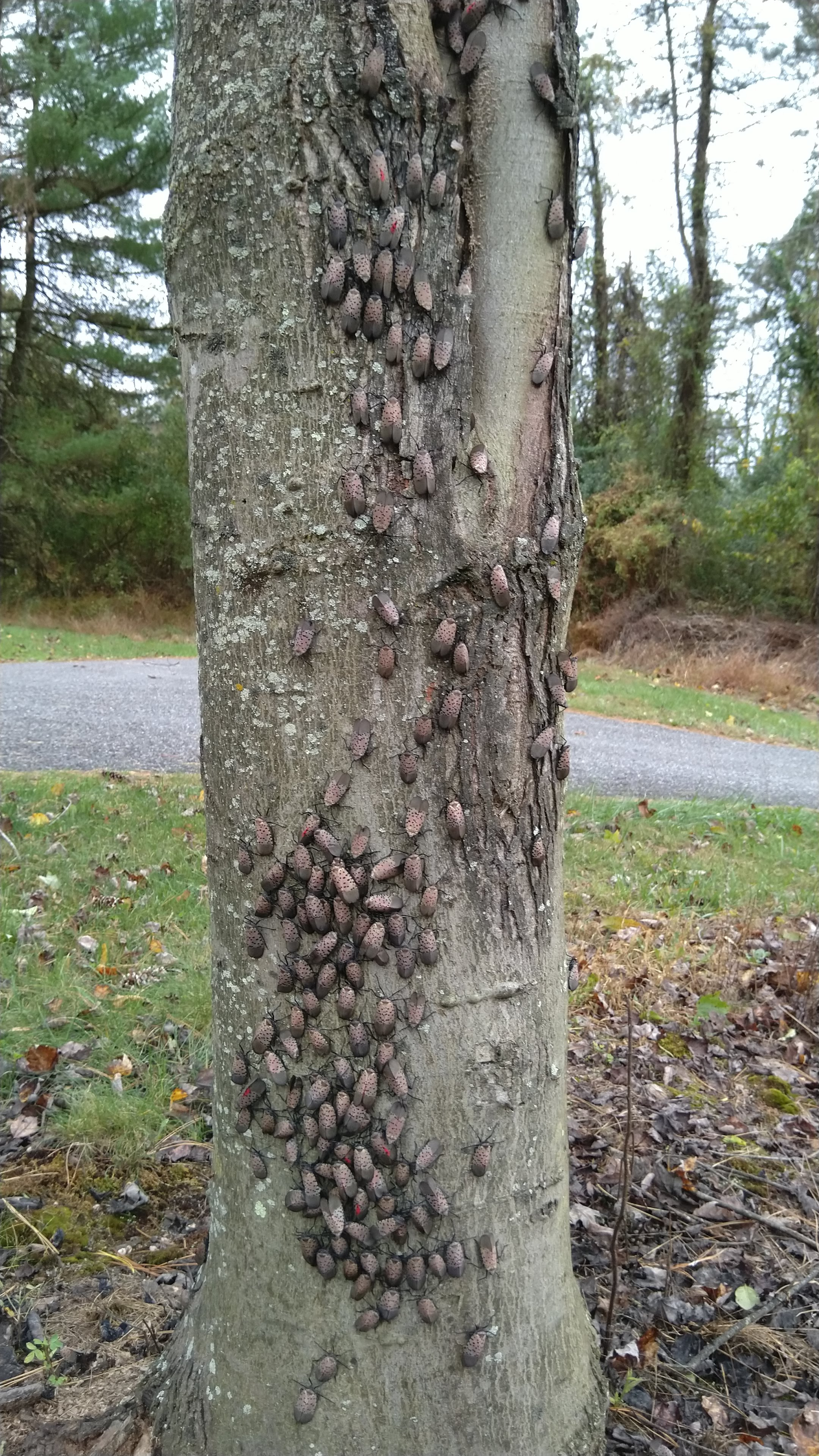 Spotted Lanterflies on a Red Maple.